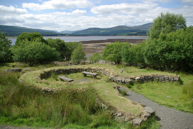 Clatteringshaws Iron Age Roundhouse reconstruction The roundhouse is now missing the roof which was present several years ago.